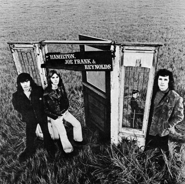 Trade ad for Hamilton, Joe Frank & Reynolds's album Hamilton, Joe Frank & Reynolds. To better adapt it to his respective Wikipedia article, the ad was cropped and cleaned in a graphics editing program. The original can be viewed at the source below.